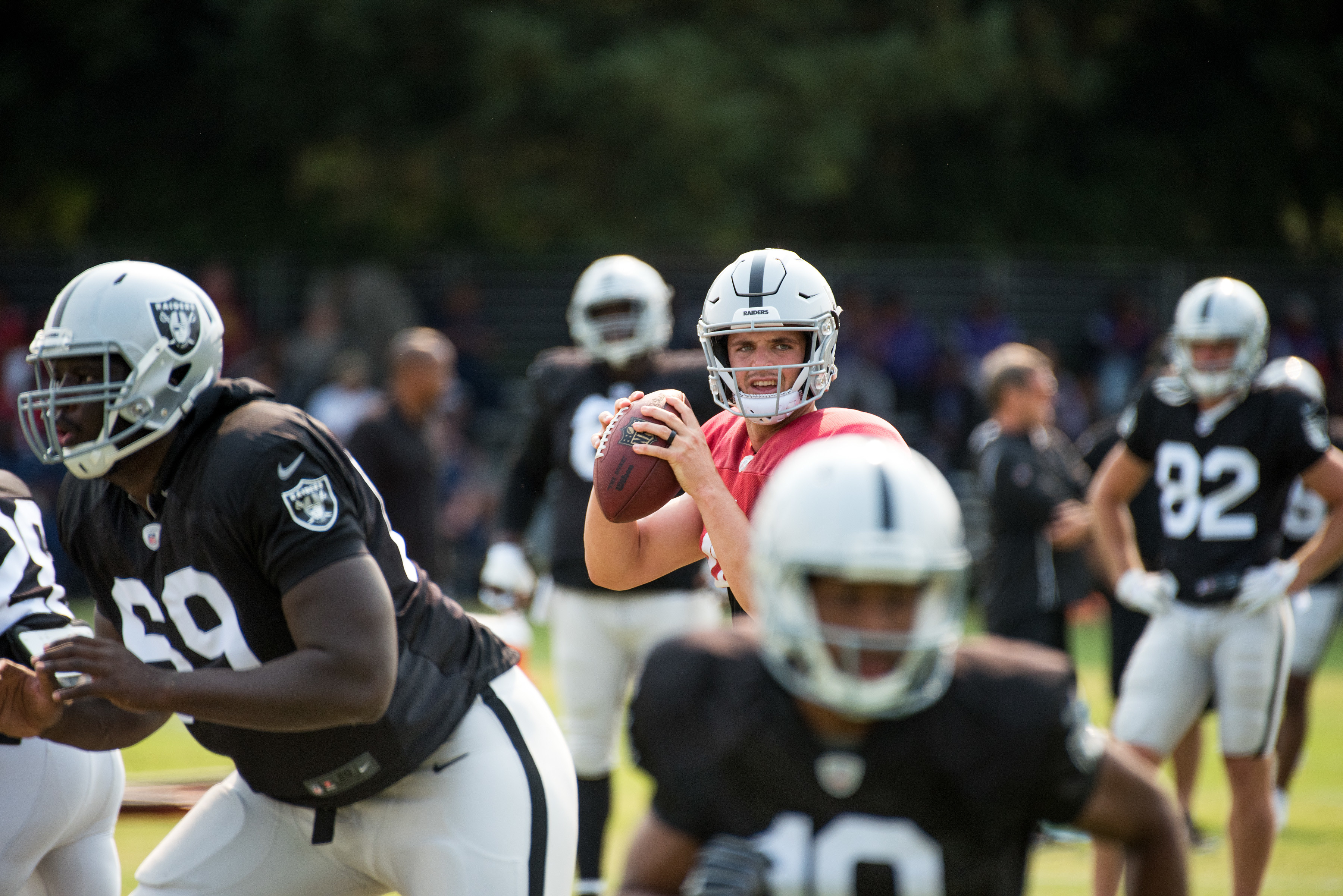 Oakland Raiders Quarterback Derek Carr throws a pass during practice at their training facility in Napa Valley, Calif., August 7, 2018. The Raiders invited Travis Air Force Base Airmen to attend camp and were treated to a scrimmage between the Raiders and Detroit Lions and a meet and greet autograph session with players and coaches from both teams.